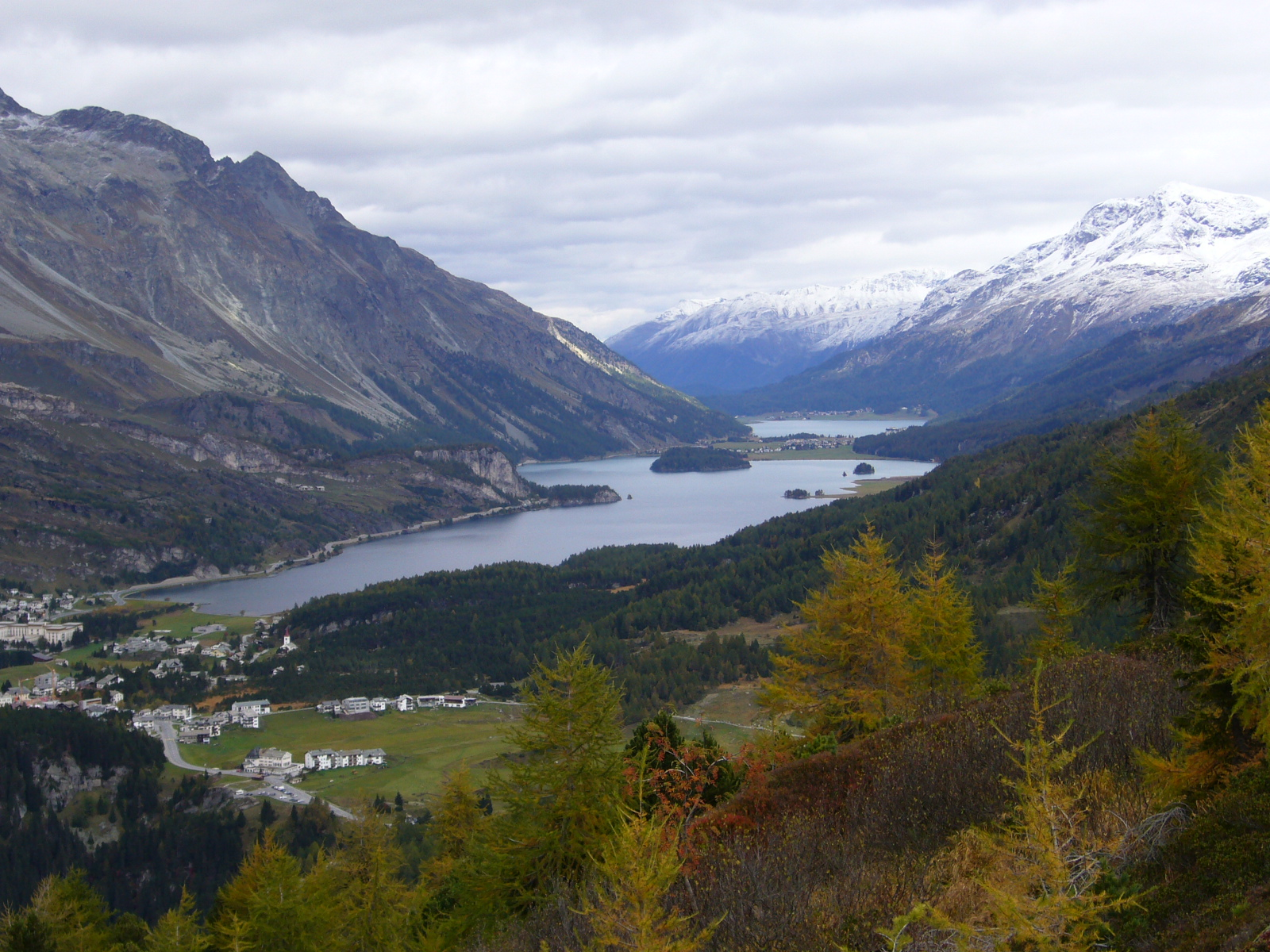 Switzerland, Bergell/Maloja, panorama view north-east from below peak of Motta da Salacina towards Maloja and Sils (Upper Engadin) in October 2006